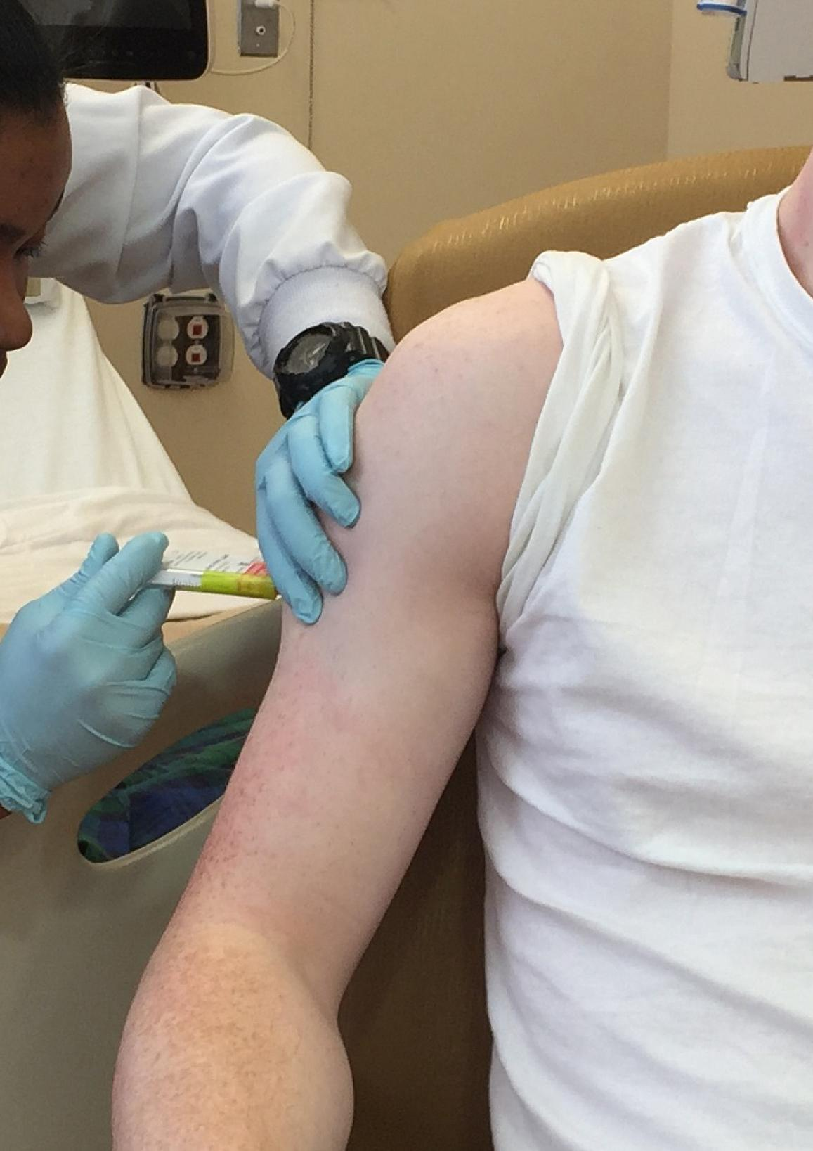 A participant receives an injection in an NIH trial examining a vaccine intended to provide broad protection against a range of mosquito-borne diseases. Credit: NIAID